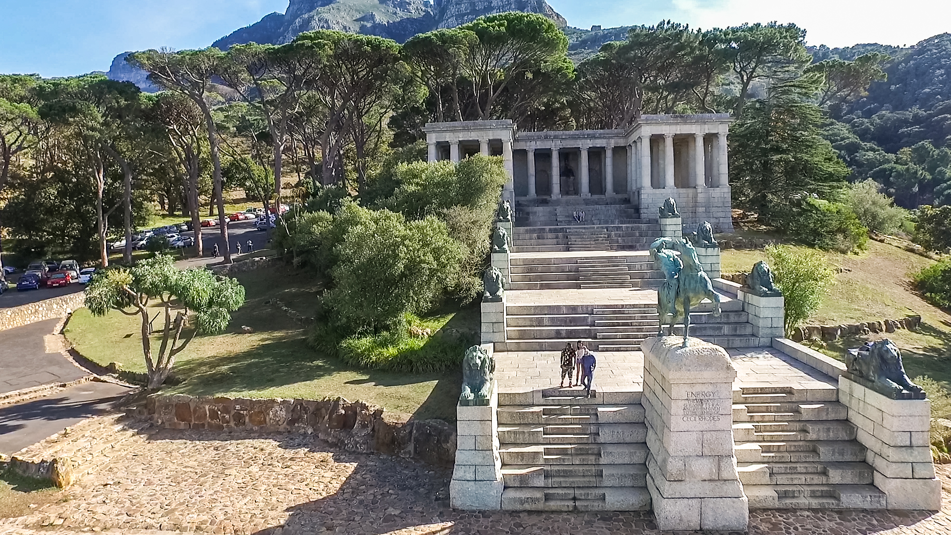 Elevated & updated View